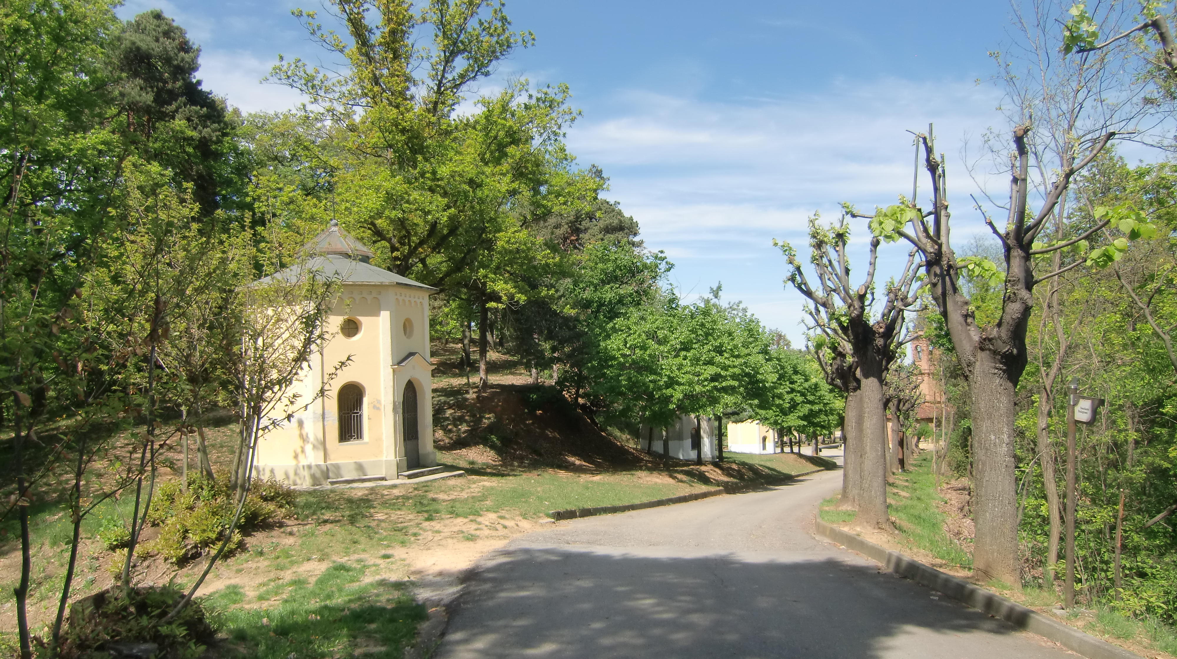 Chapels of the Stations of the Cross, Montà d'Alba, Province of Cuneo, Piedmont, Italy